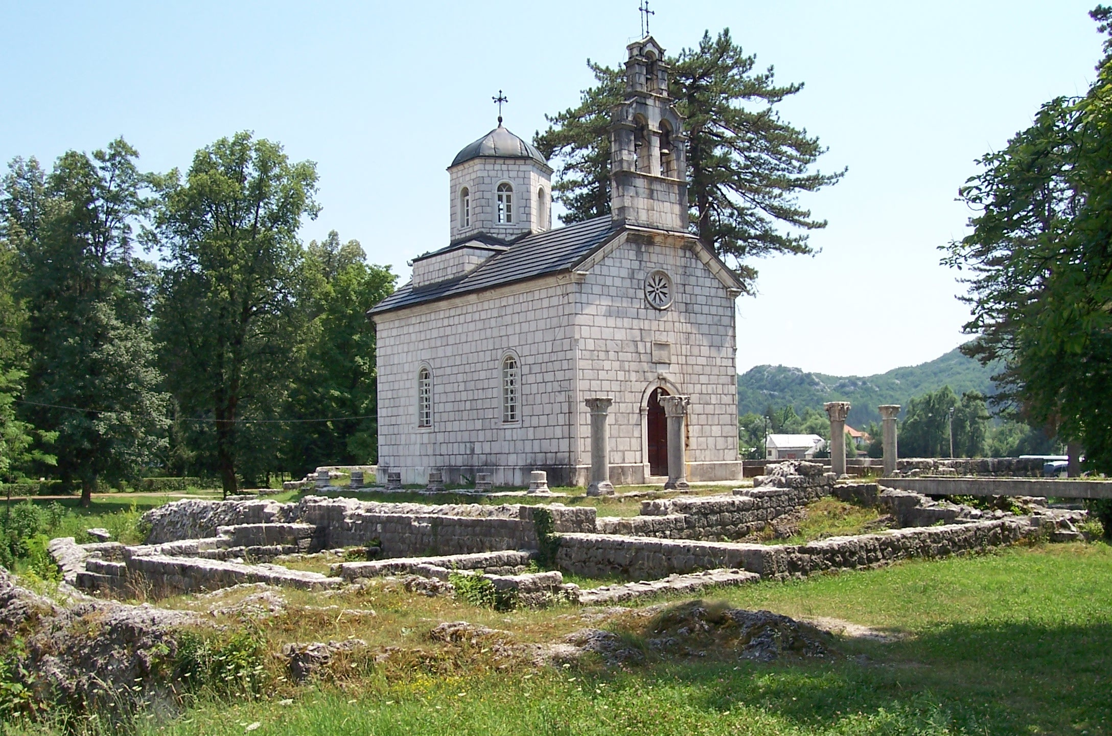 Cetinje, Montenegro. Court Church.